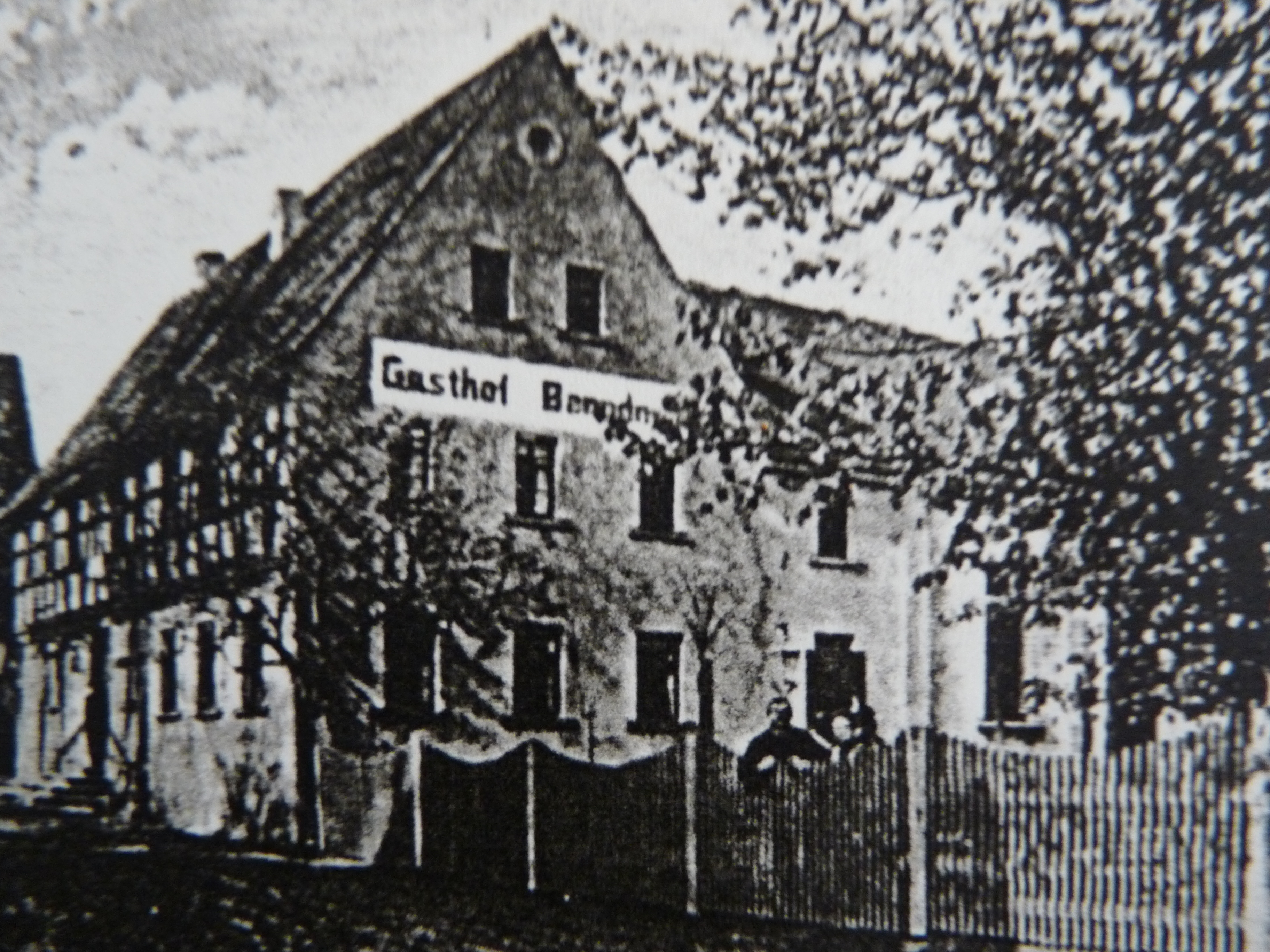 The Benndorf inn